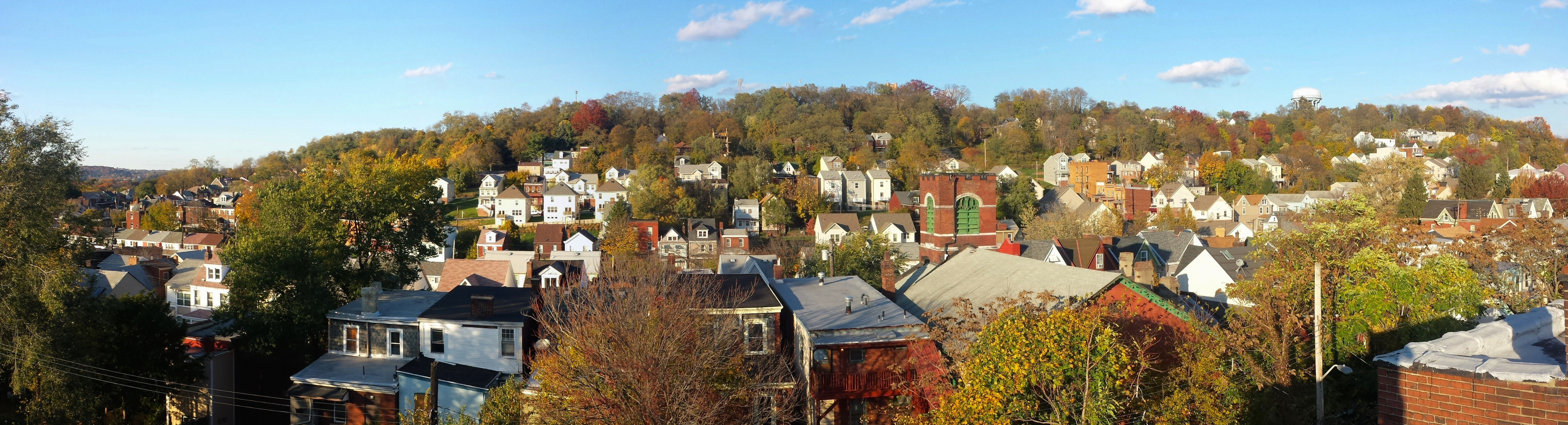 Garfield (Pittsburgh), as seen from Penn Avenue on its southern border.